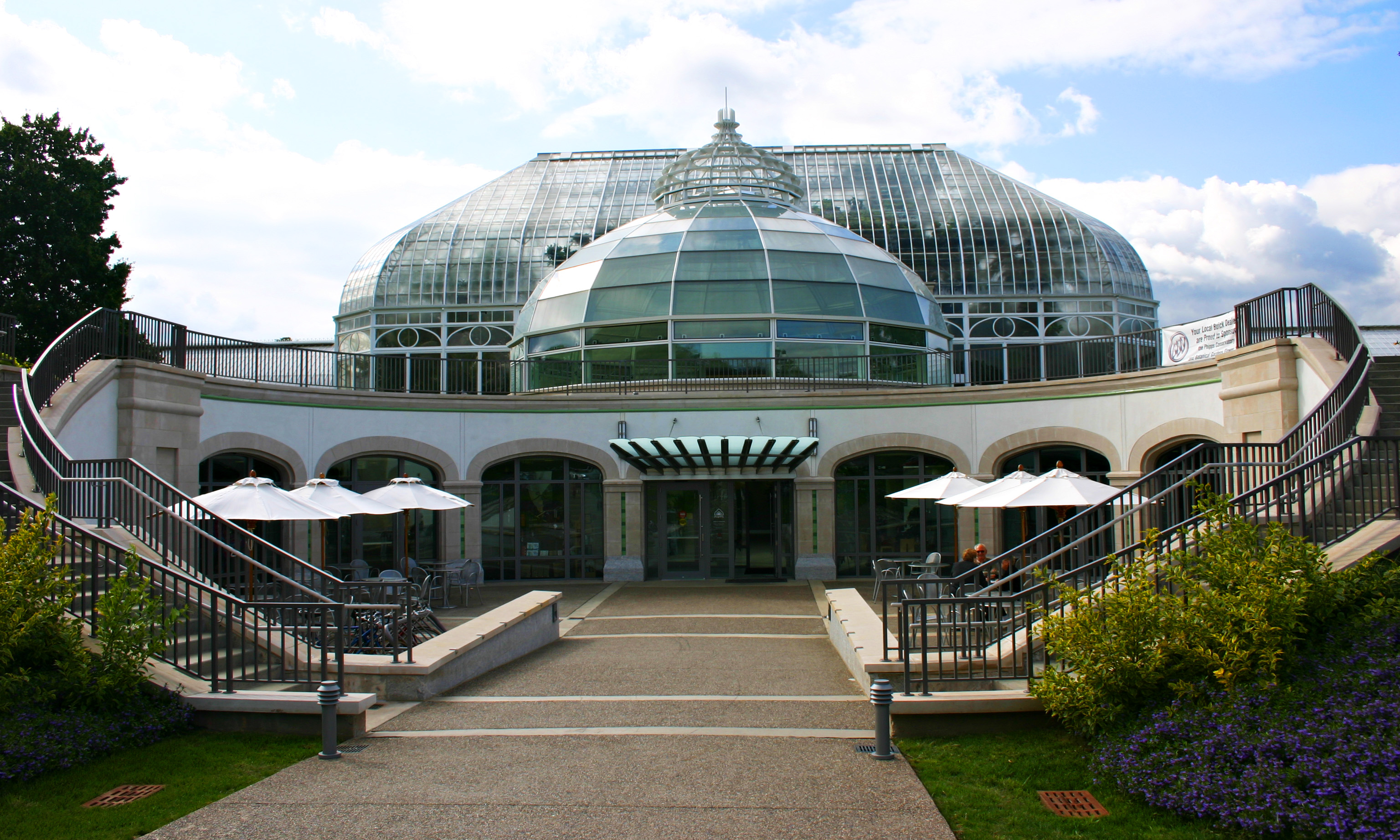 Taken by uploader (Mike Murphy) in 2005.